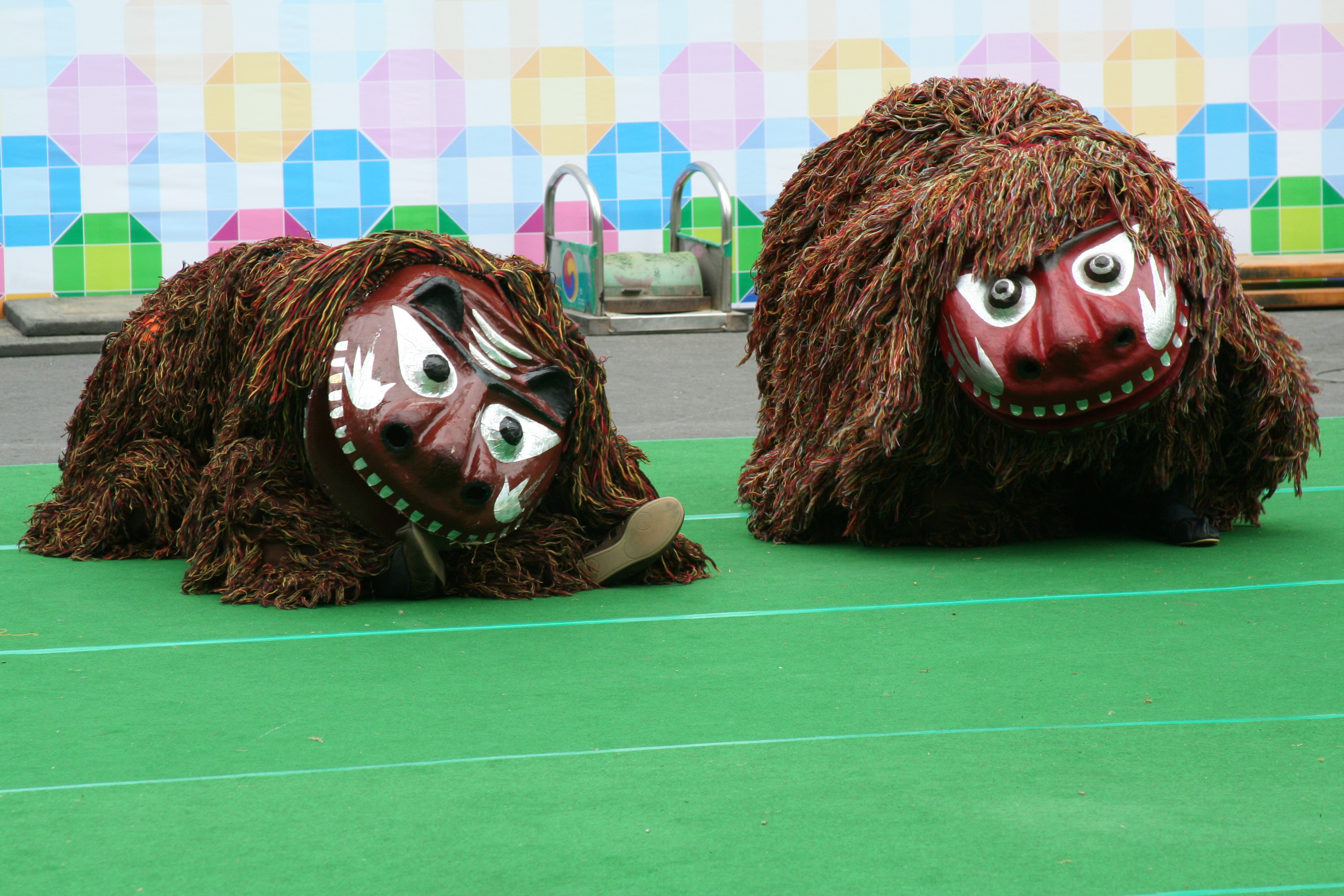 Bukcheong Saja Noreum (Lion mask play of Bukcheong) performed for Hi! Seoul Festival in May 2008.